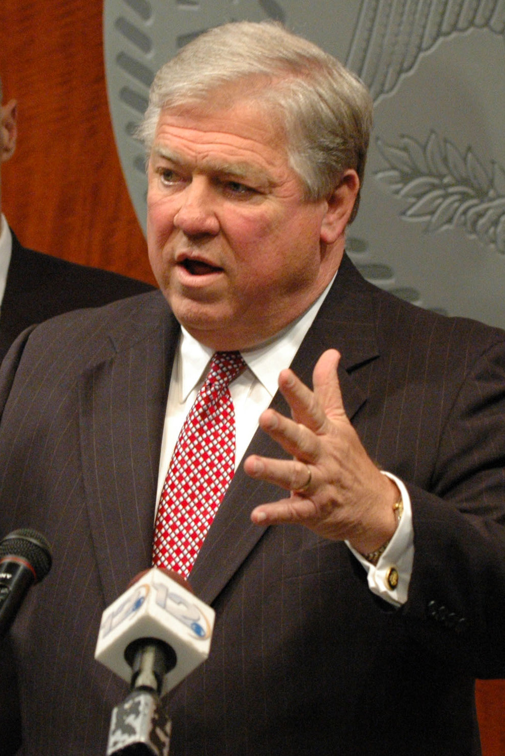 "At his press conference today, Governor Haley Barbour and Homeland Security Secretary, Michael Chertoff, who is touring the Gulf area affected by Hurricane Katrina, are emphasizing preparednesss for the 2006 hurricane season. The state and federal partners work closely on emergency preparedness as well as response."